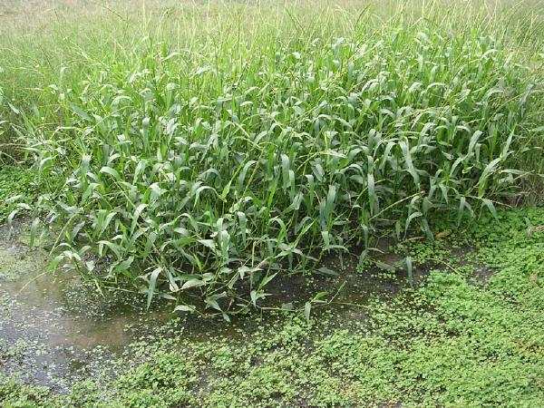 Hymenachne amplexicaulis US Forest Service, Pacific Island Ecosystems at Risk (PIER).